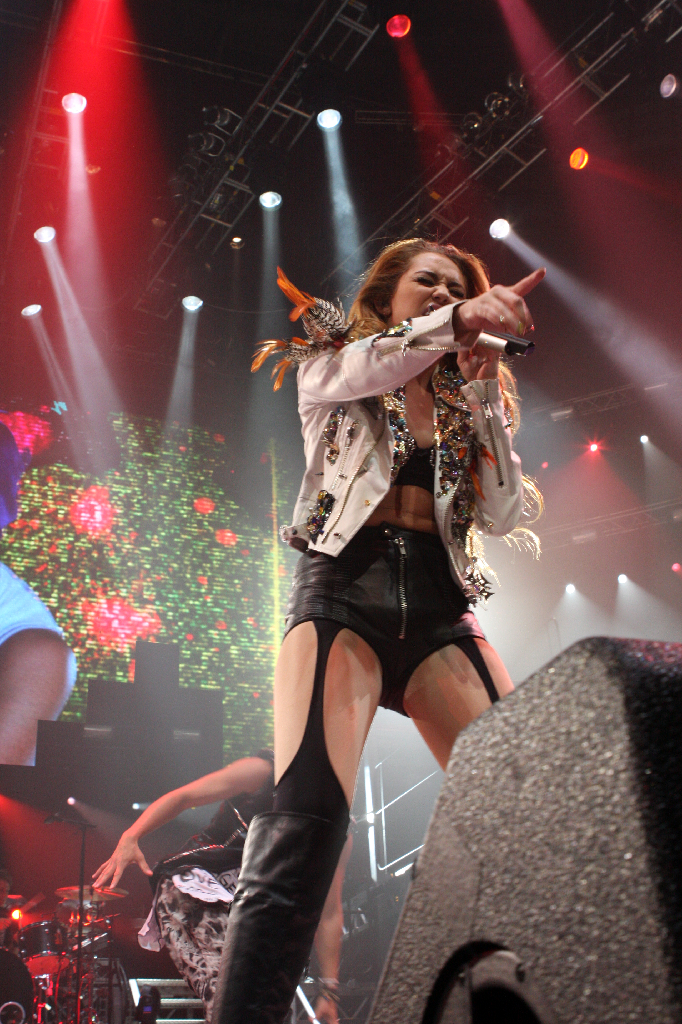 Miley Cyrus Gypsi Tour Acer Arena Sydney